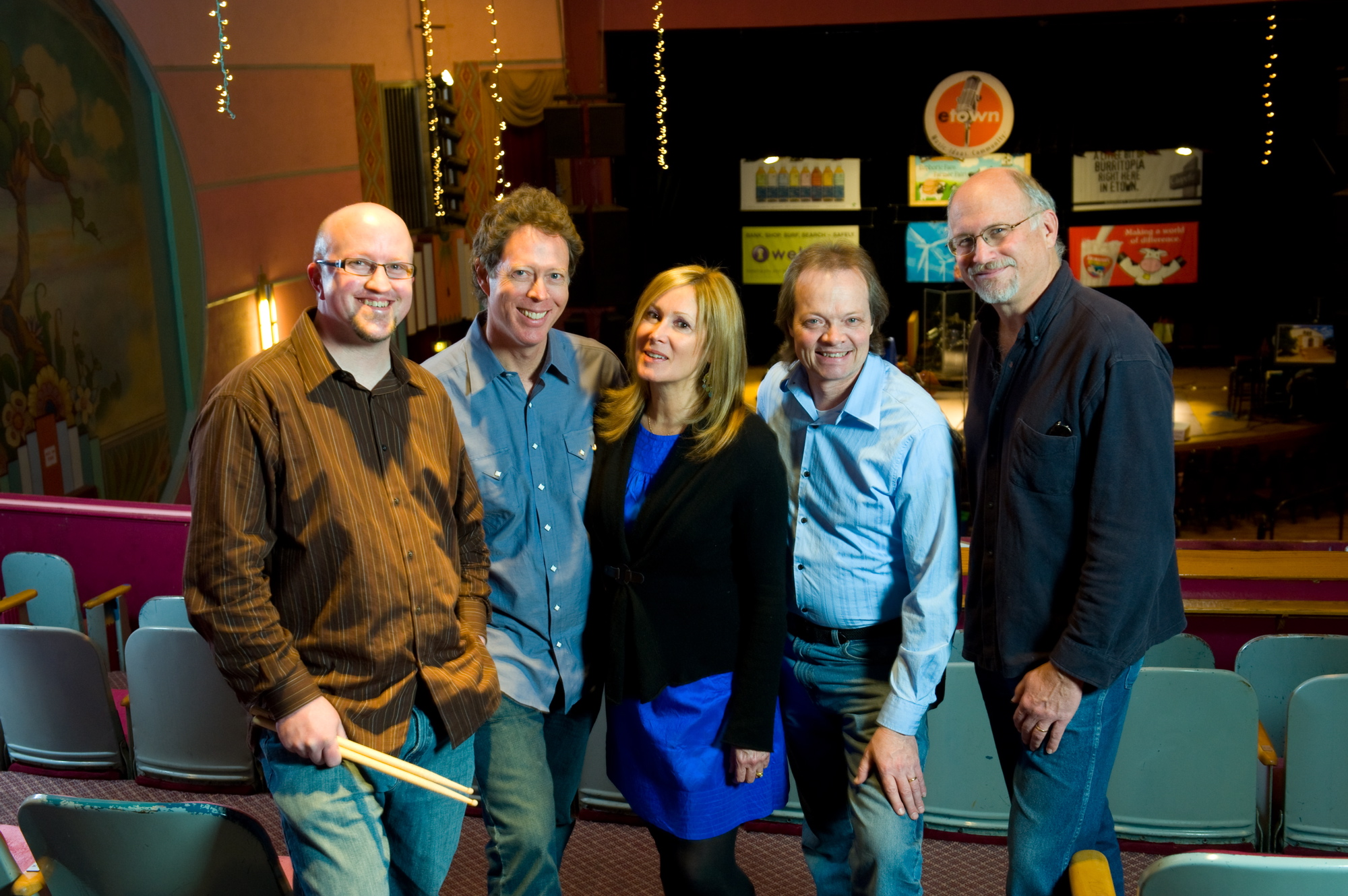 The eTones are the house band of eTown, a worldly syndicated radio program.